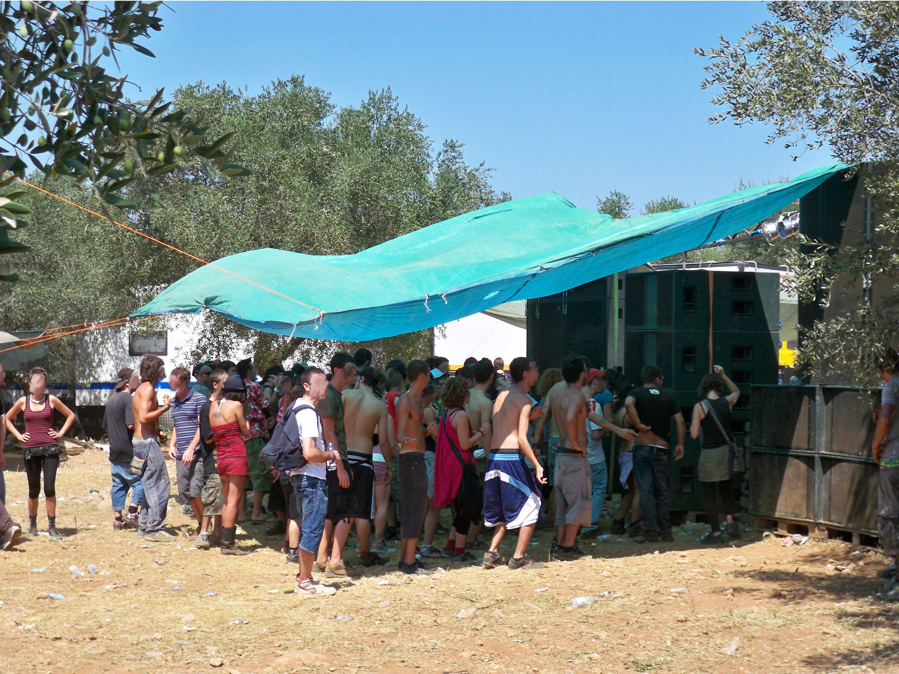 A Rave in Salento, ravers faces have been deleted